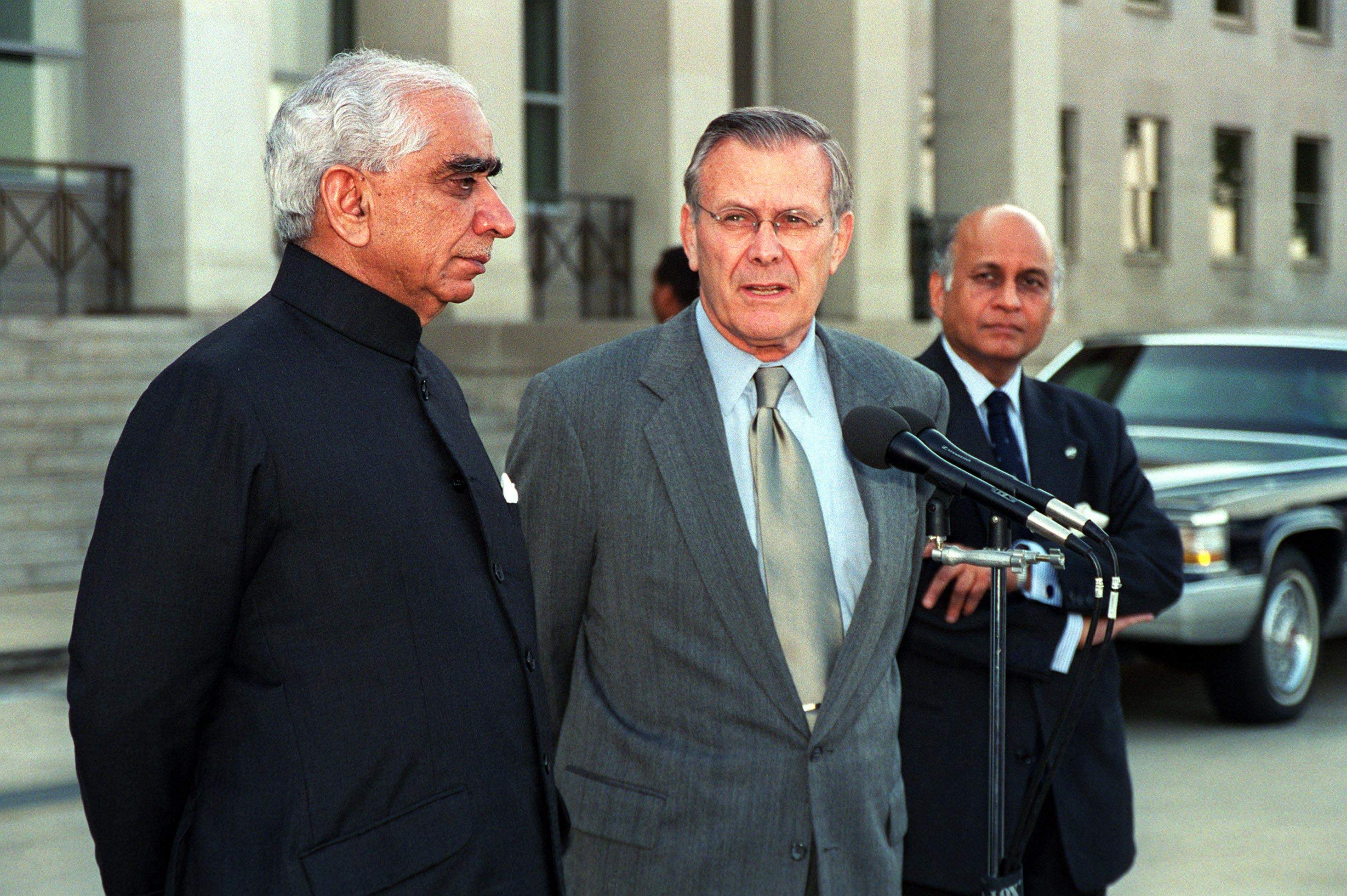 Secretary of Defense Donald H. Rumsfeld (right) and Minister of Defense & External Affairs Jaswant Singh, of India, answer questions for reporters at the Pentagon on Oct. 2, 2001.